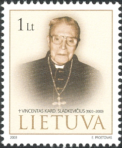 Stamps of Lithuania, 2003